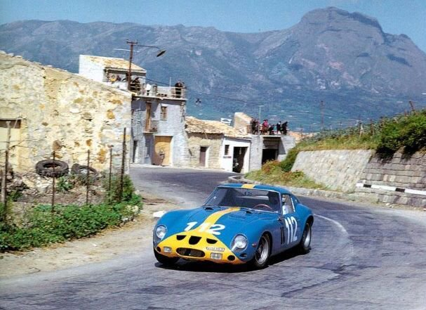 Ulf Norinder's 1962 Ferrari 250 GTO s/n 3445GT at Targa Florio on 26 Aprile 1964. His co-driver was Picko Troberg, and they ended in 9th place overall.[1]